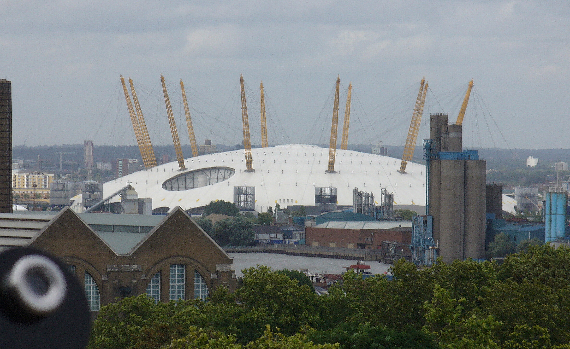 Millennium Dome, view from The Royal Observatory, Greenwich